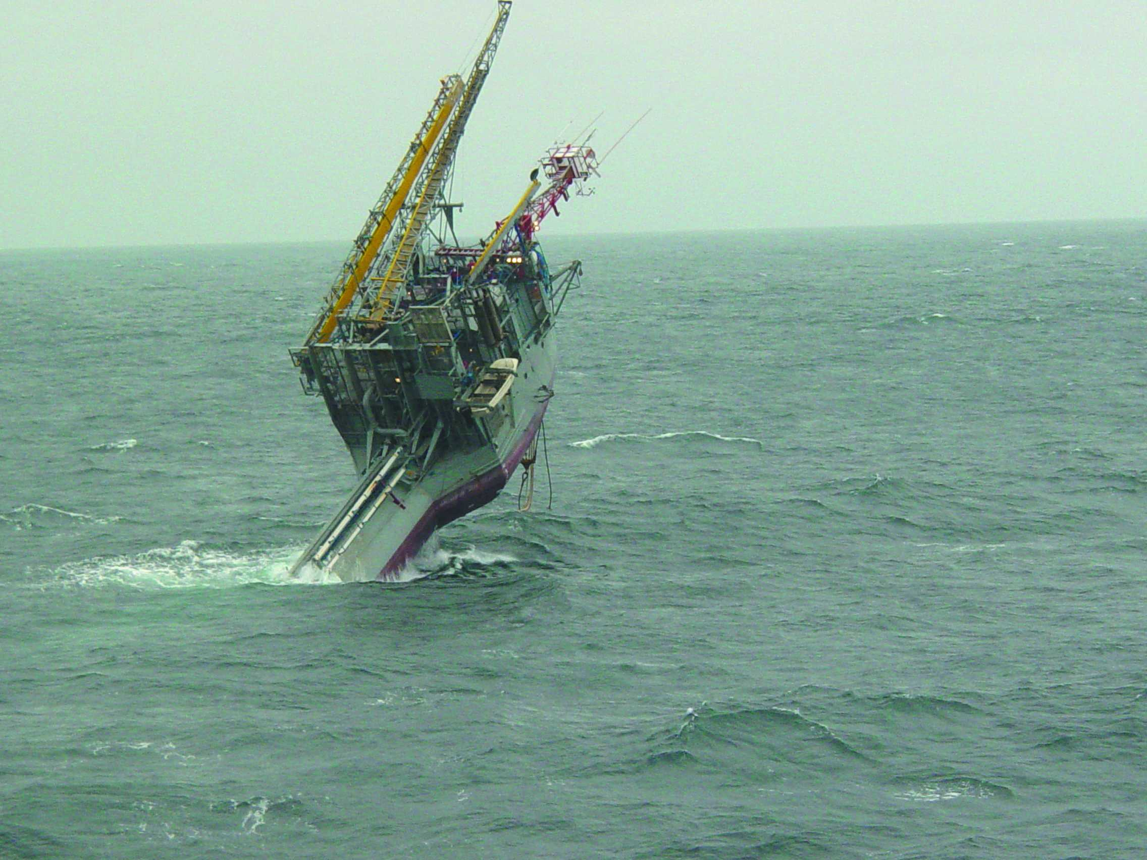 Floating Instrument Platform (R/P FLIP) during "flipping process", stern is being flooded, October 2003